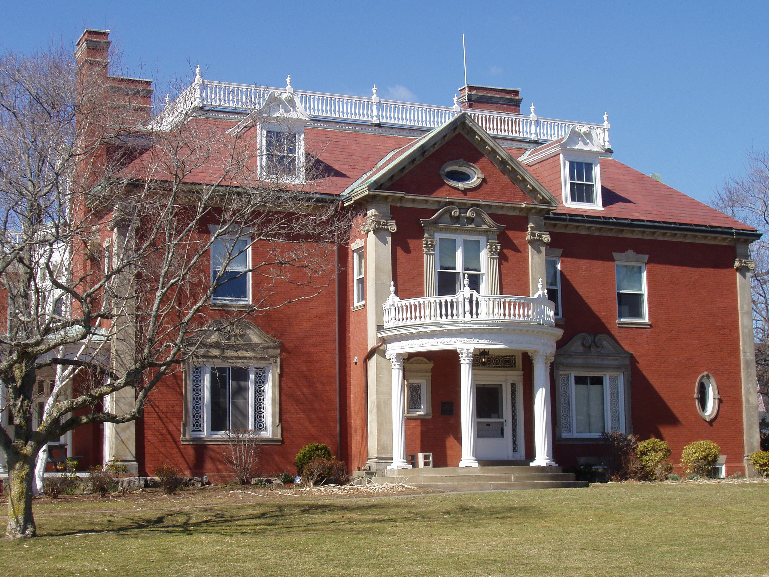 Elihu Thomson House - Swampscott, Massachusetts. Formerly home of inventor and electrical engineer Elihu Thomson; now town offices. Photograph taken by me, March 2006.